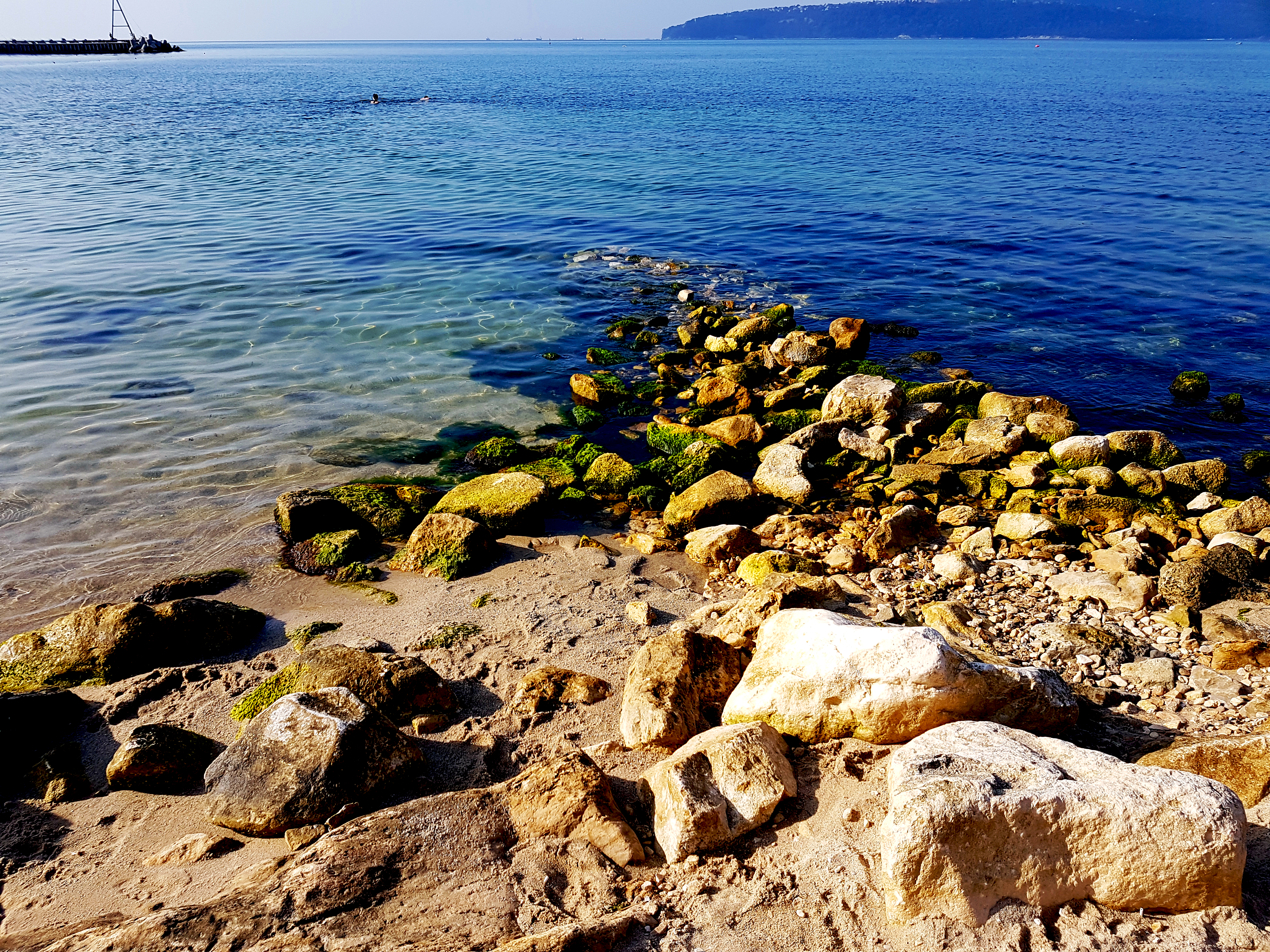 See Garden in Varna, Bulgaria